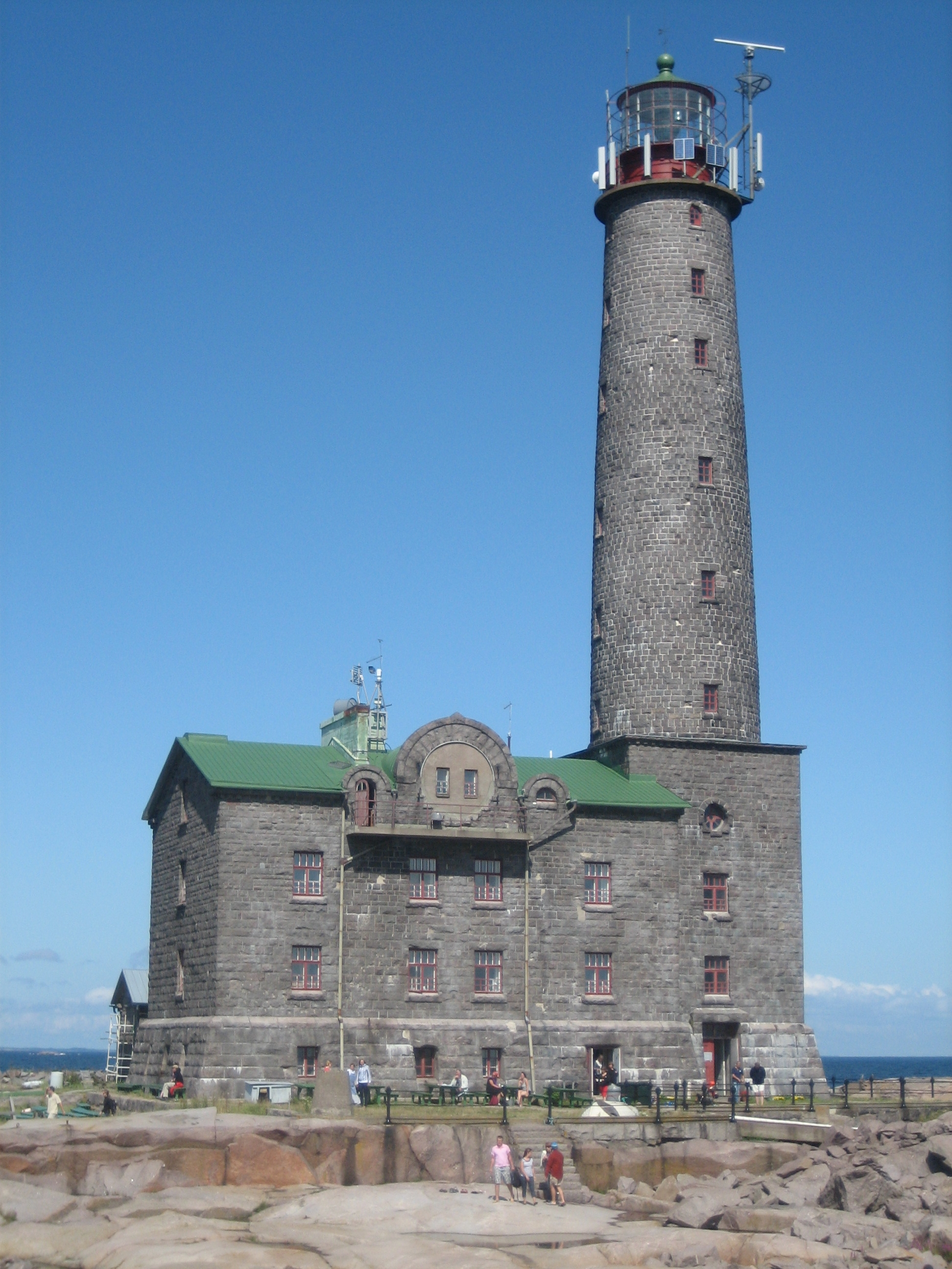 Bengtskär ligthouse is located approx. 30 kilometers from the town of Hanko, Finland.